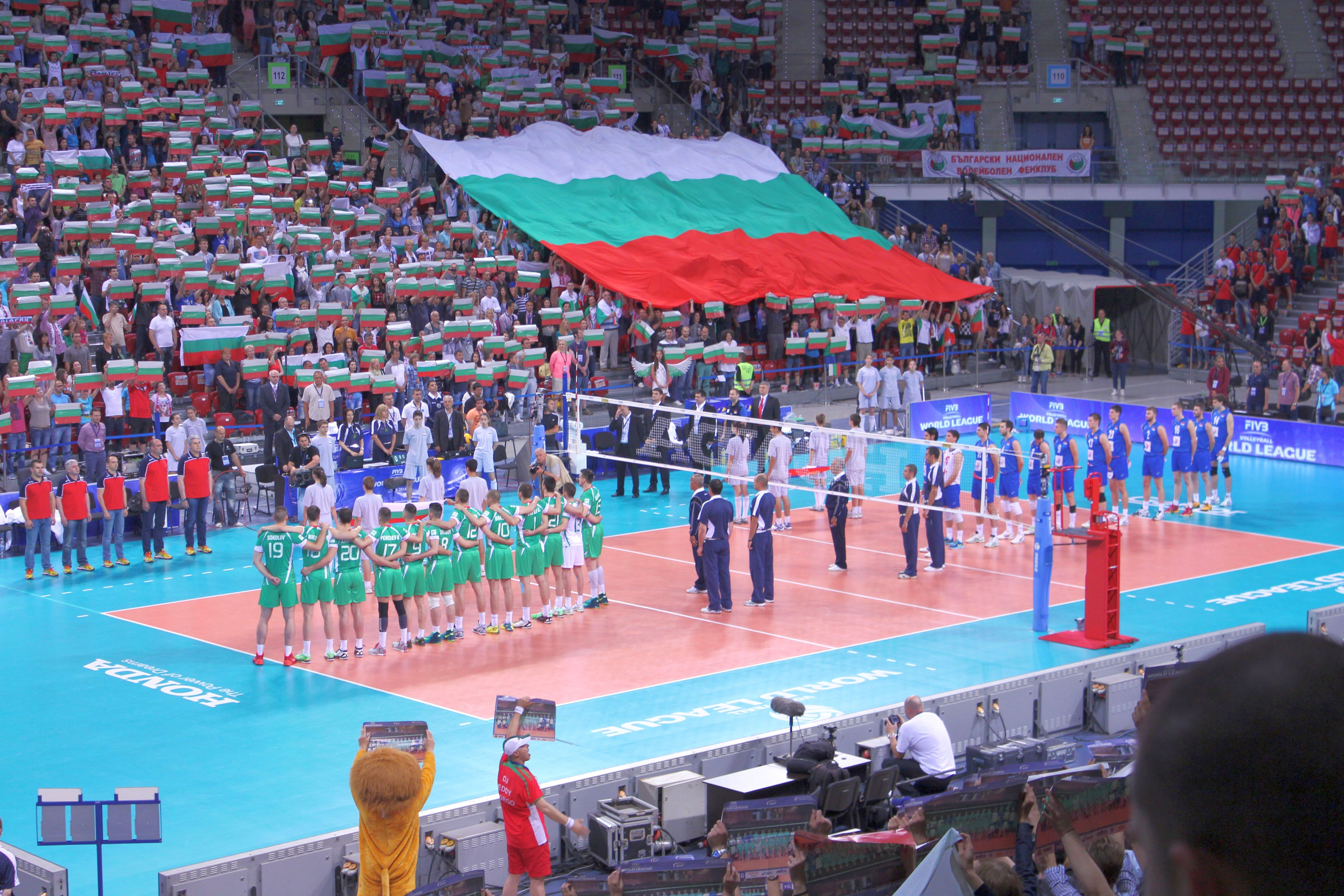 Bulgaria and Serbia men's national volleyball teams in 2014